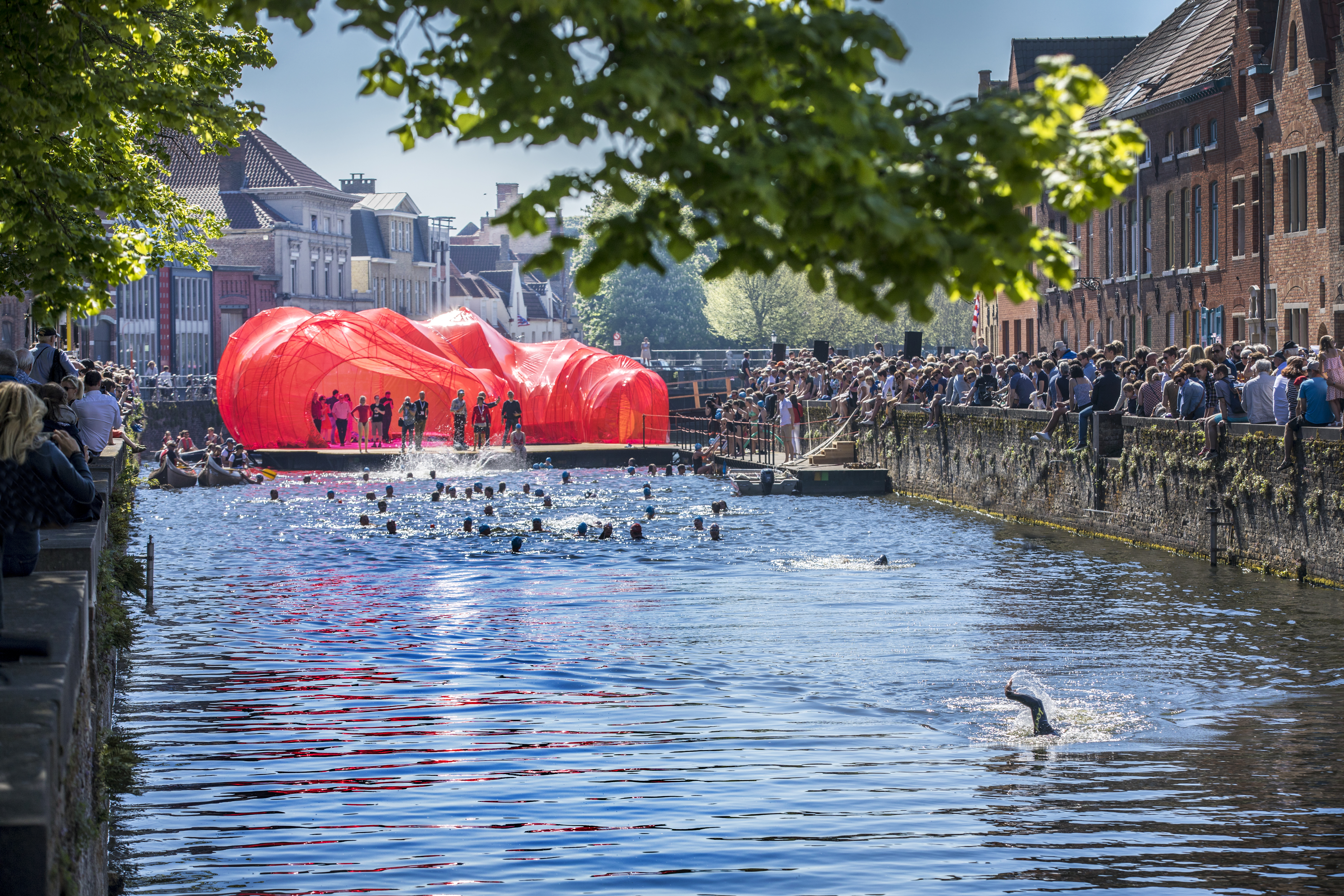 selgascano - selgascano pavilion - Triënnale Brugge 2018